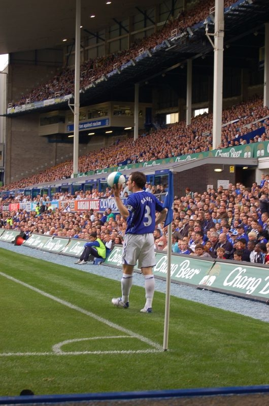 Leighton Baines during Everton - Blackburn match, 25.08.2007